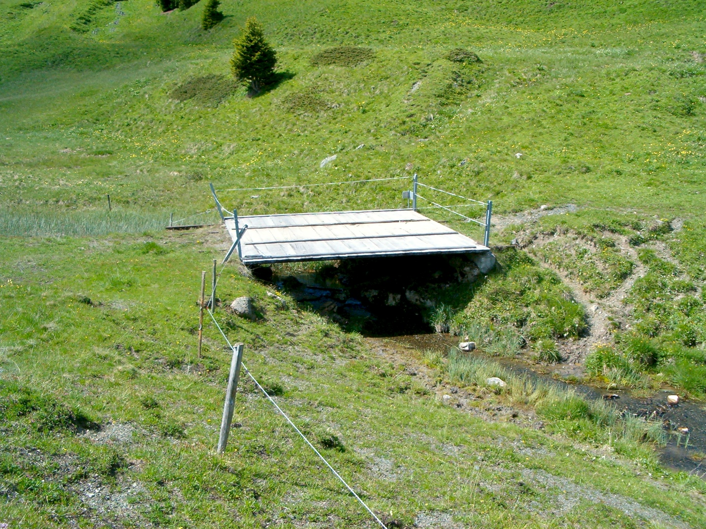 ancient dam of lake "Unterer Prätschsee" near Arosa, Switzerland